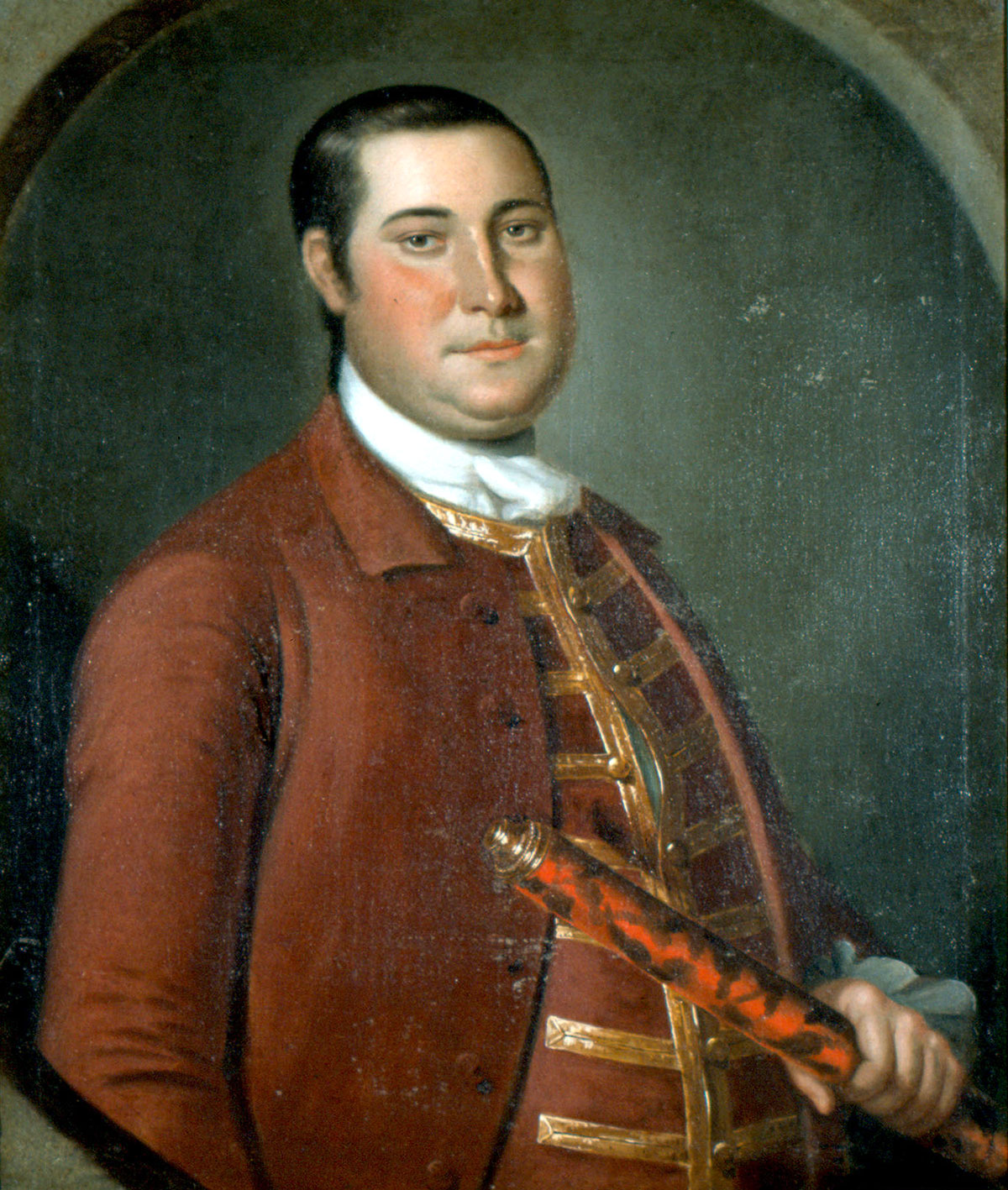 1767 By John Hesselius Captain Charles Ridgely (1733-1790) was the builder and first master of Hampton. A ship’s captain in his early career (note the telescope depicted in his hand), he retired from the sea and assumed control of the family iron business in 1763. He also operated a mercantile business in Baltimore Town; owned vast farms and plantations cultivating grain and vegetable crops; bred cattle, pigs, and thoroughbred horses; planted commercial orchards; and operated mills and quarries. Profits from his Northampton ironworks during the Revolutionary War and from confiscated Loyalist properties helped fund the building of Ridgely’s “house in the forest” beginning in 1783. Captain Ridgely had resided there for little over a year at the time of his death. Oil on canvas. H 76.2, W 63.5 cm Hampton National Historic Site, HAMP 1144